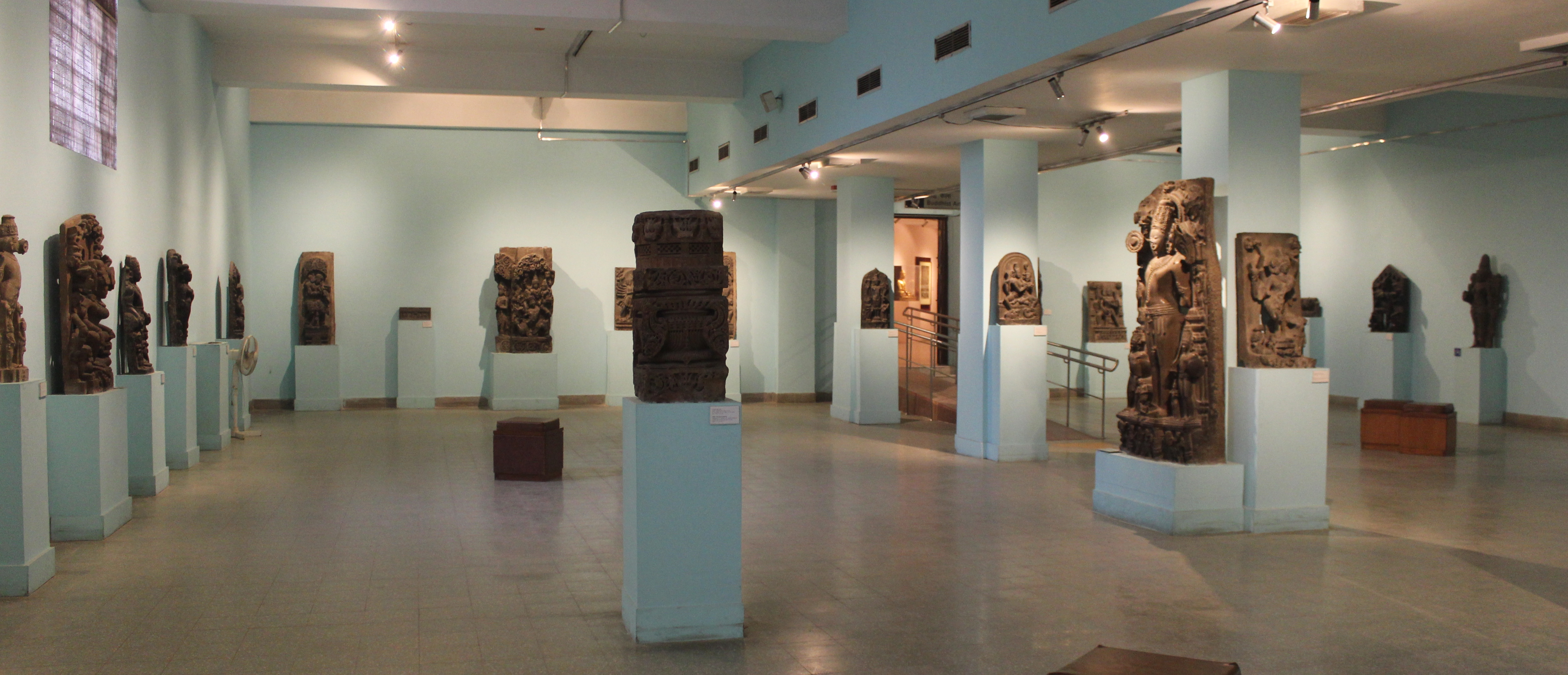 A view of the Late Medieval Gallery